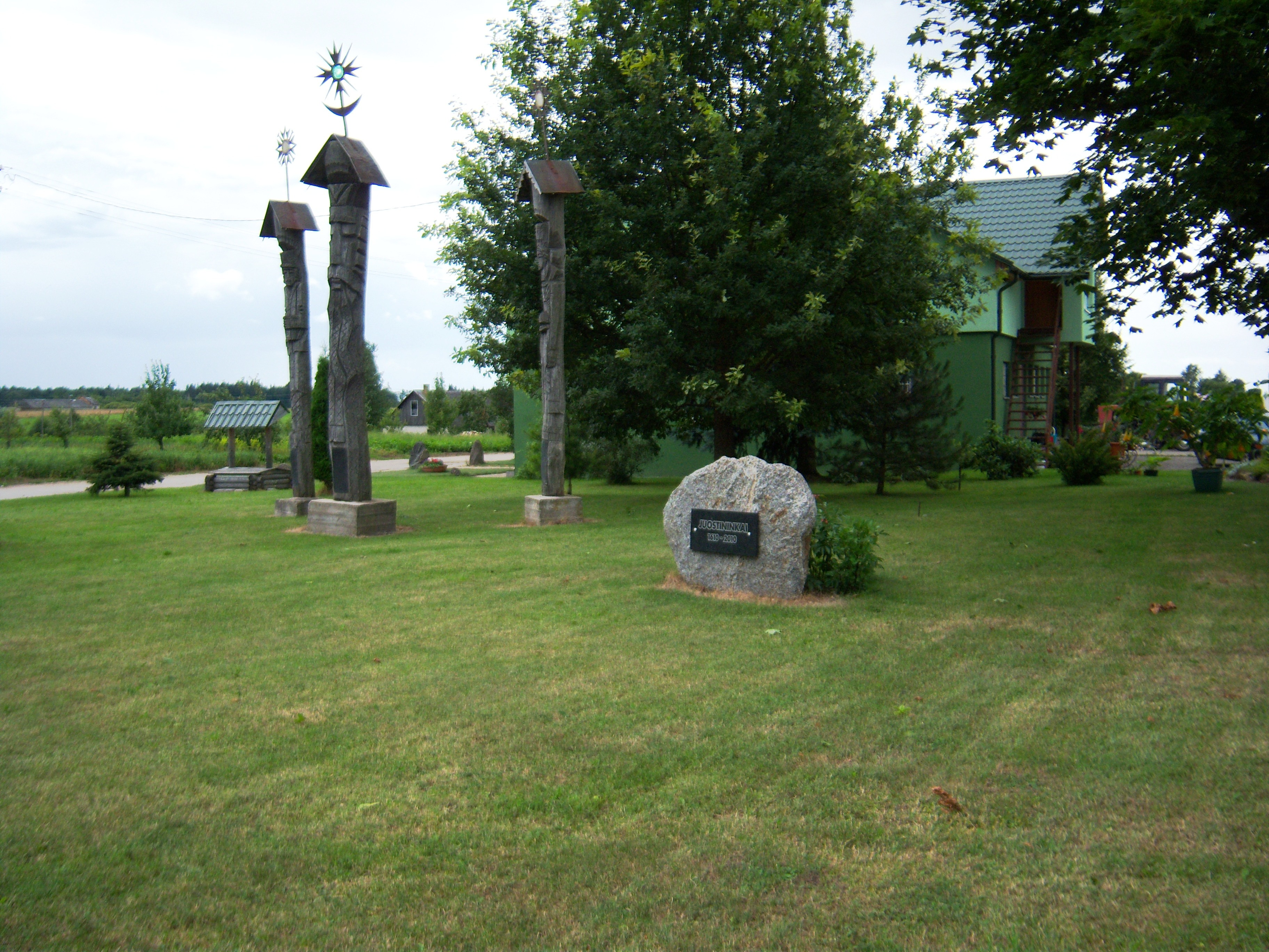 Juostininkai commemorative stone, Anykščiai District, Lithuania